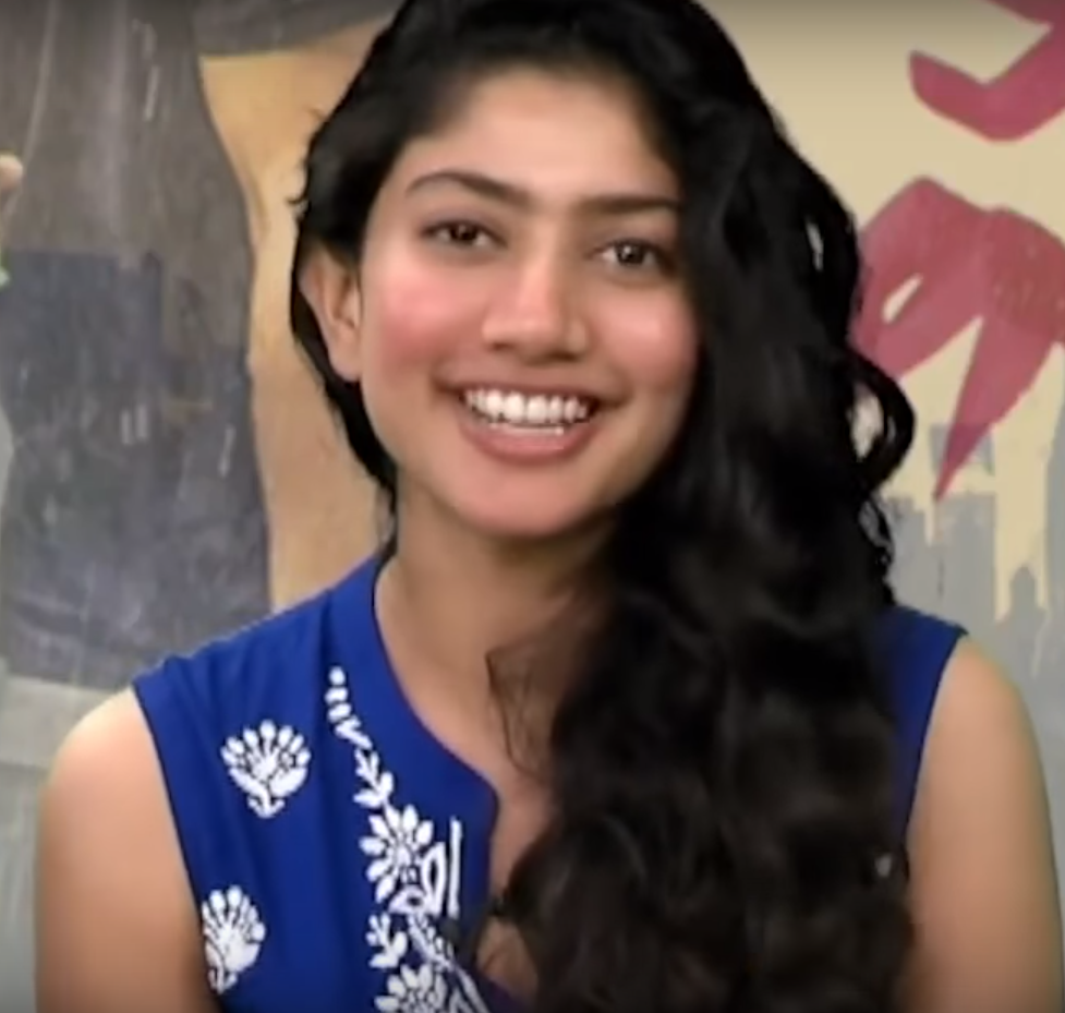 Sai pallavi at an interview for fida